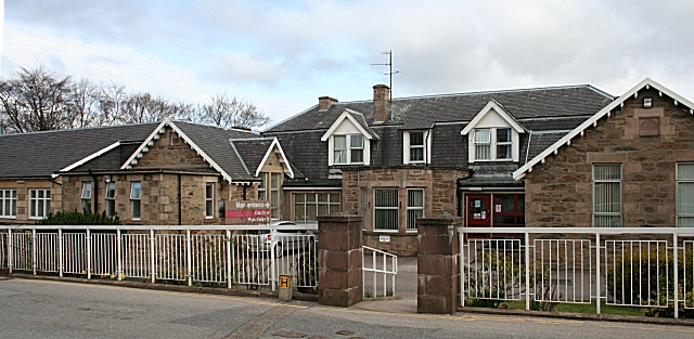 Turner Memorial Hospital The original hospital building has been much added to. See Turner_Memorial_Hospital for the history of the building.